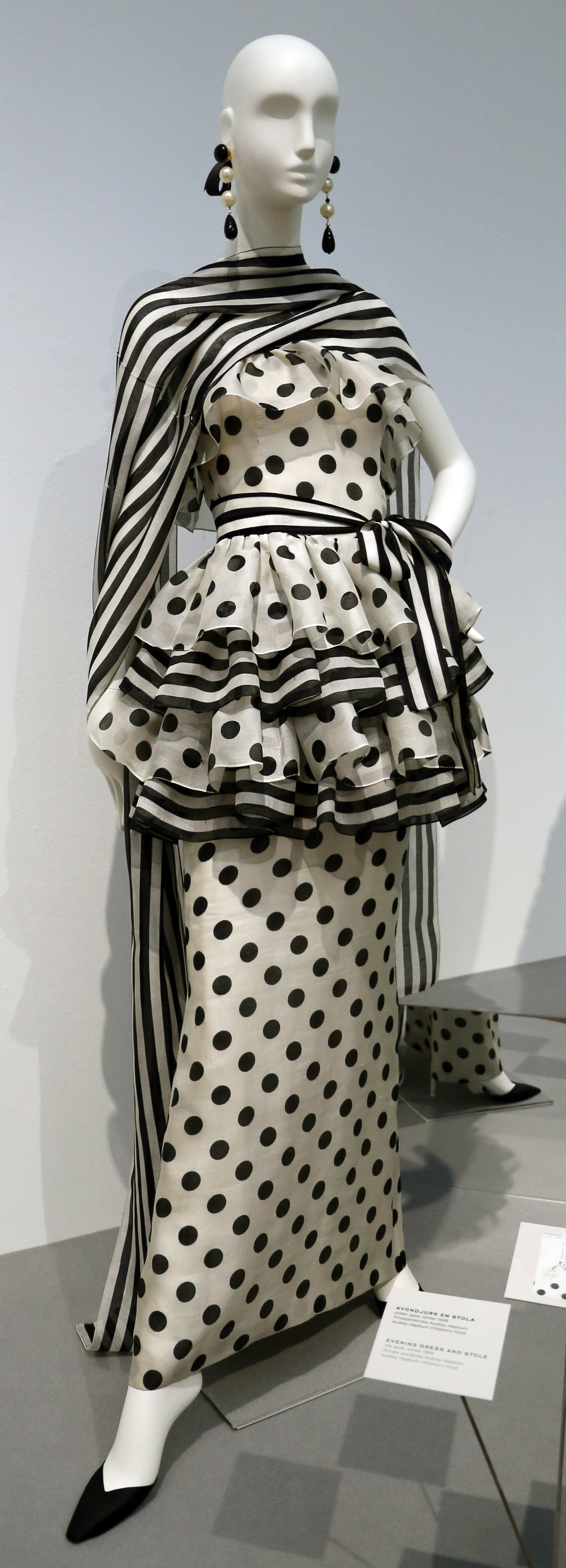 Givenchy exhibition in the Gemeentemuseum Den Haag (2017)